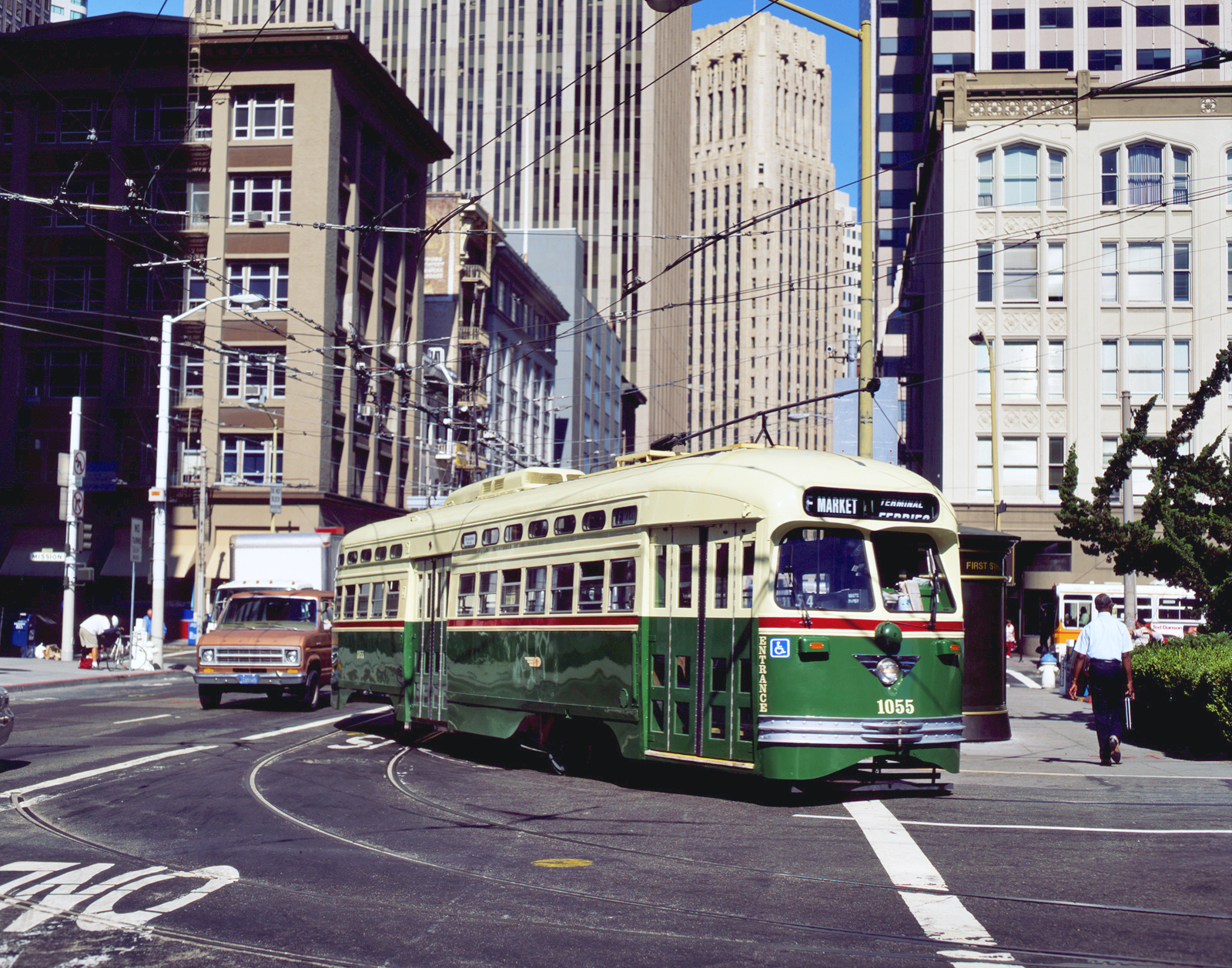 Muni 1055 turning into the Transbay Terminal in September 1998